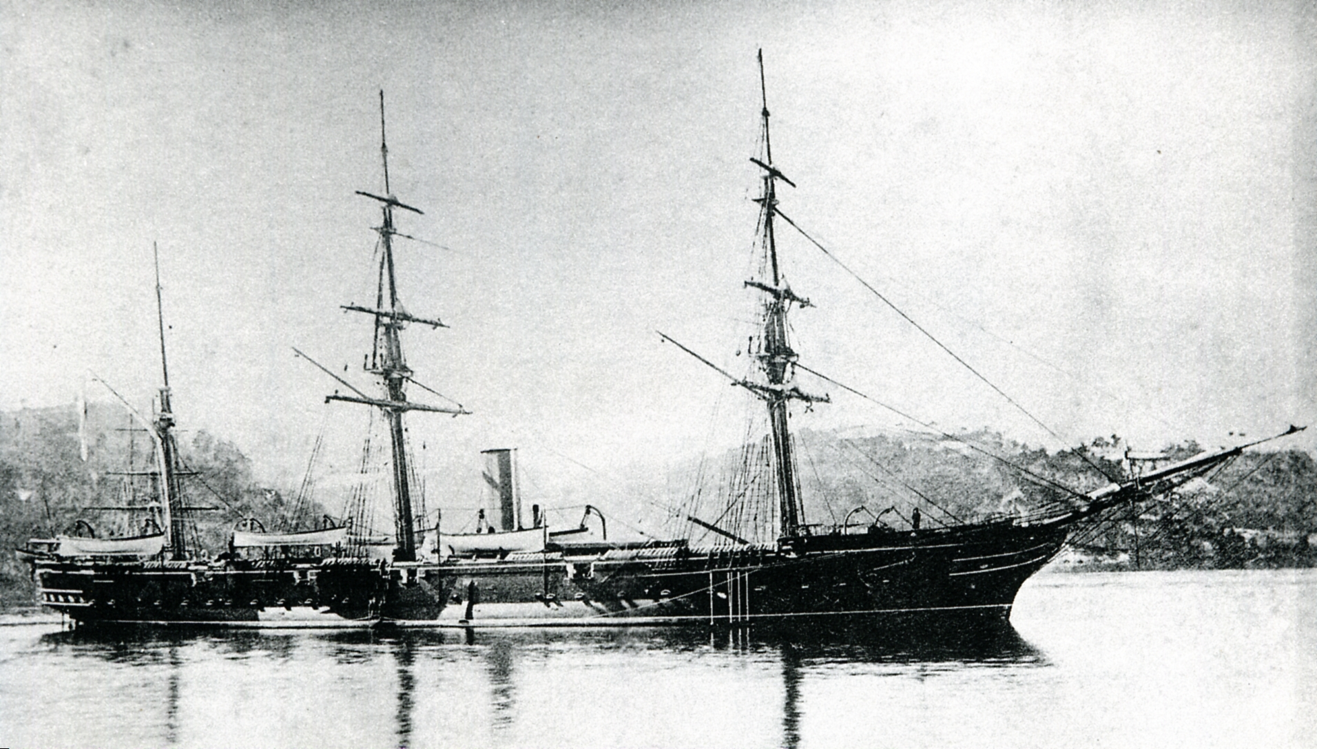 Japanese sloop-of-war Tenryu